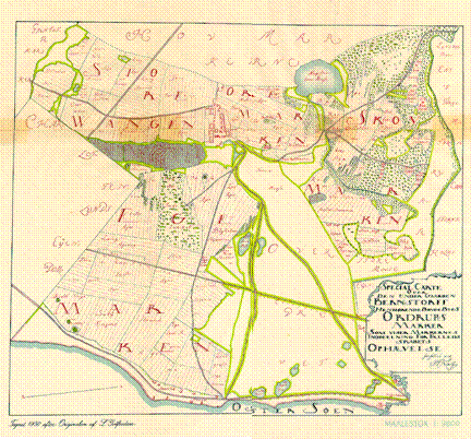 Special Carte Over Den Under Gaarden Bernstorff Henhørende Bondebyes Ordrups Marker: Map used when the land was divided among the individual farmers in Ordrup in 1765